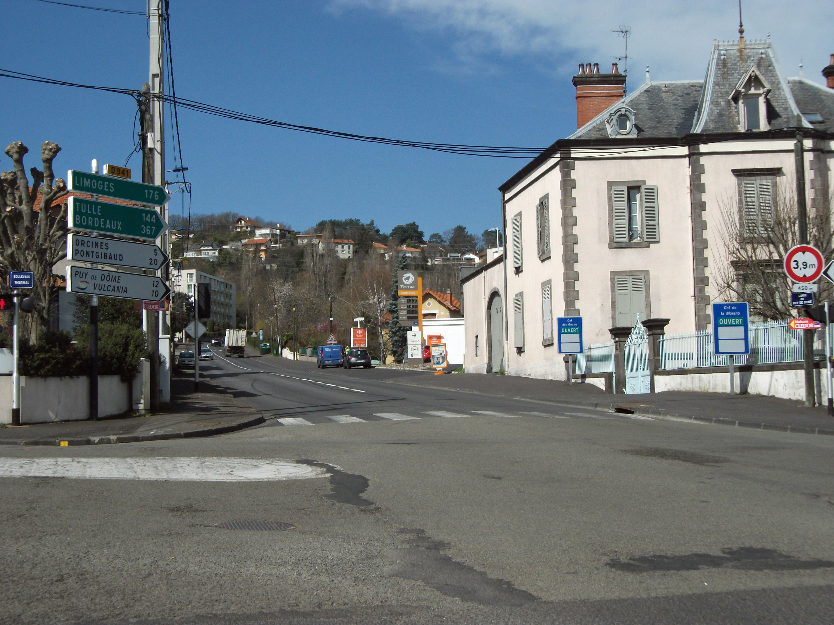 Departmental road 941 towards Limoges, Tulle, Bordeaux, Orcines, Pontgibaud. Approximate elevation: 485 m / 1,591 ft